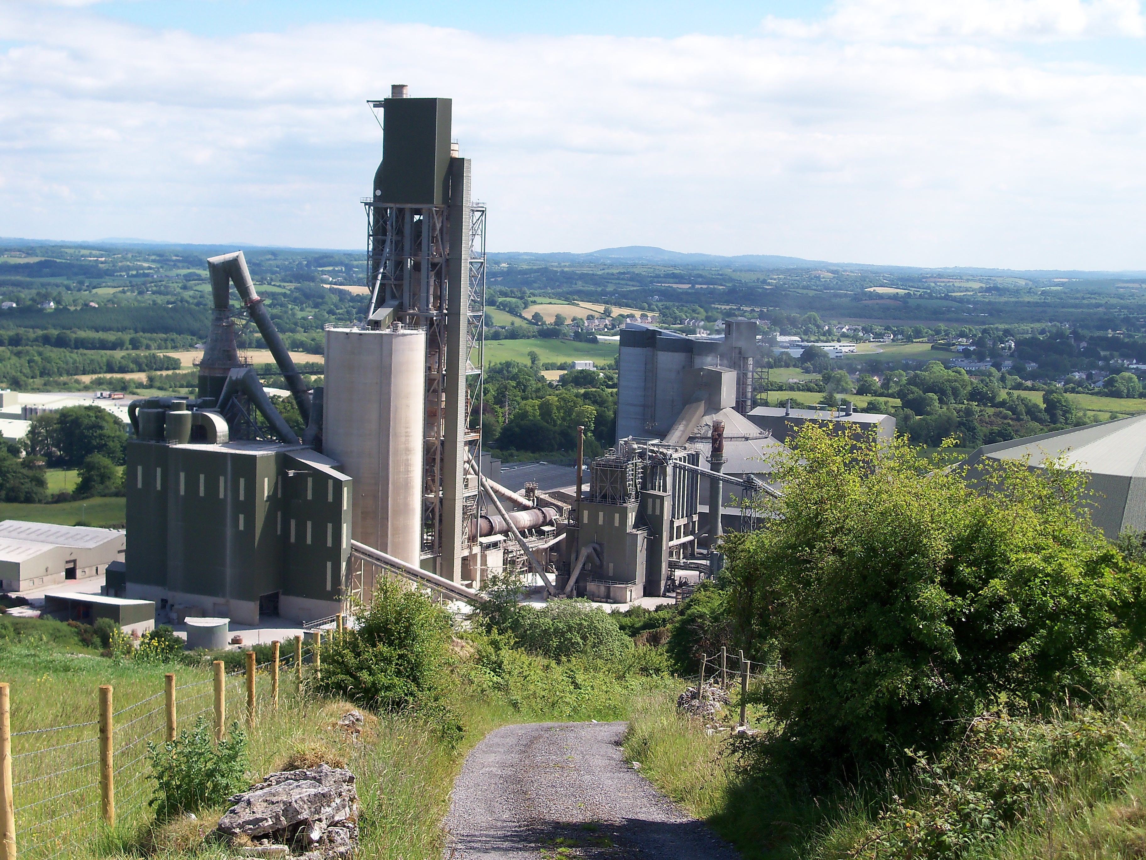 Ballyconnell, County Cavan. Quinn Cement factory and surrounding countryside.